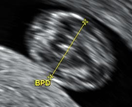 Biparietal diameter measured in the horizontal plane of the head of a fetus, in this case measured at 13.9 mm, corresponding to a gestational age of 10 weeks and 2 days.